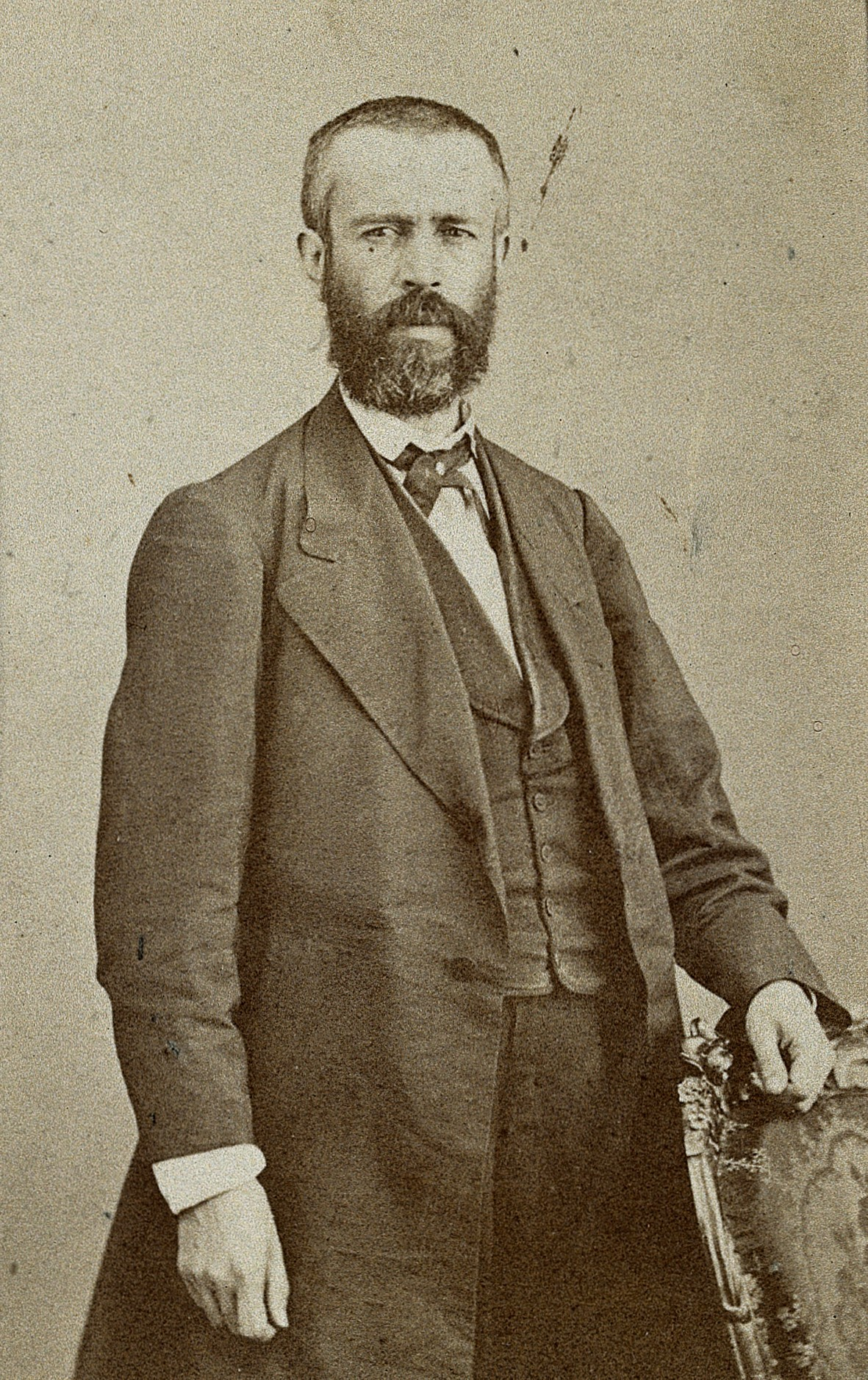 Rafael Lucio. Photograph by Cruces y Campa. Iconographic Collections Keywords: portrait photographs